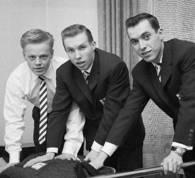 Ski jumpers Veikko Kankkonen (1940–), Juhani Kärkinen (1935–2019) and Kalevi Kärkinen (1934–2004)